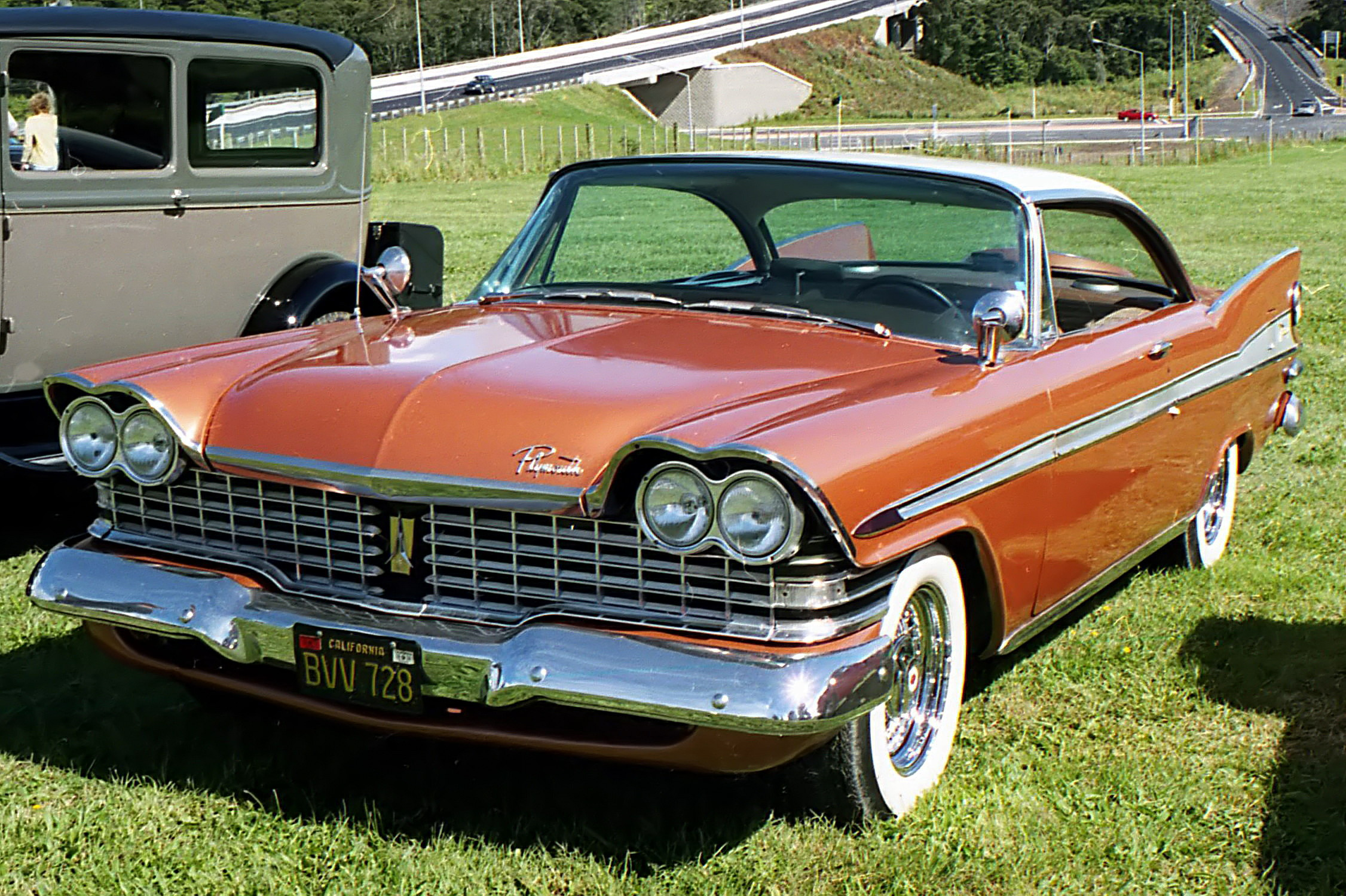 Albany,Auckland.New Zealand